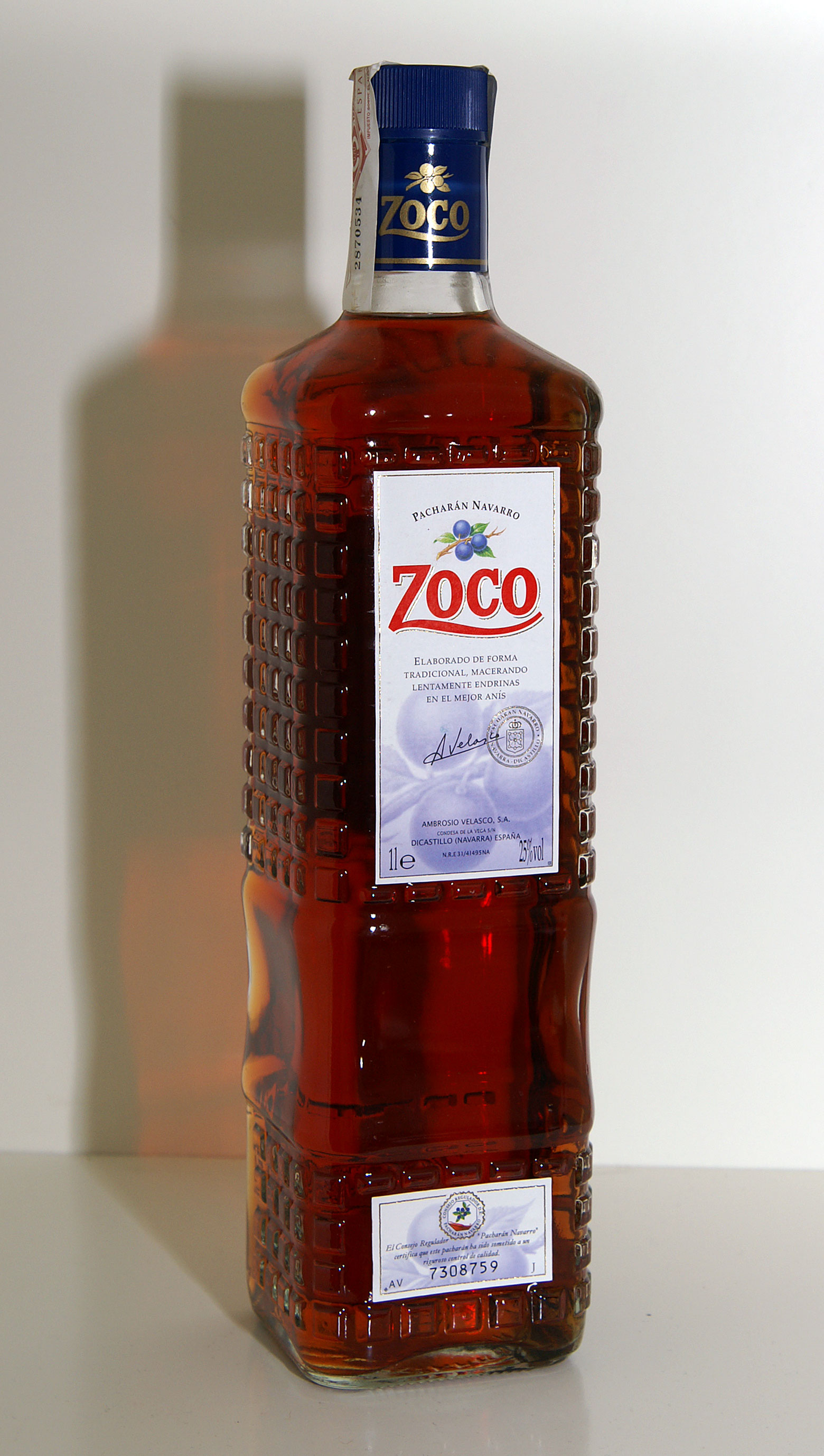 a bottle of Zoco